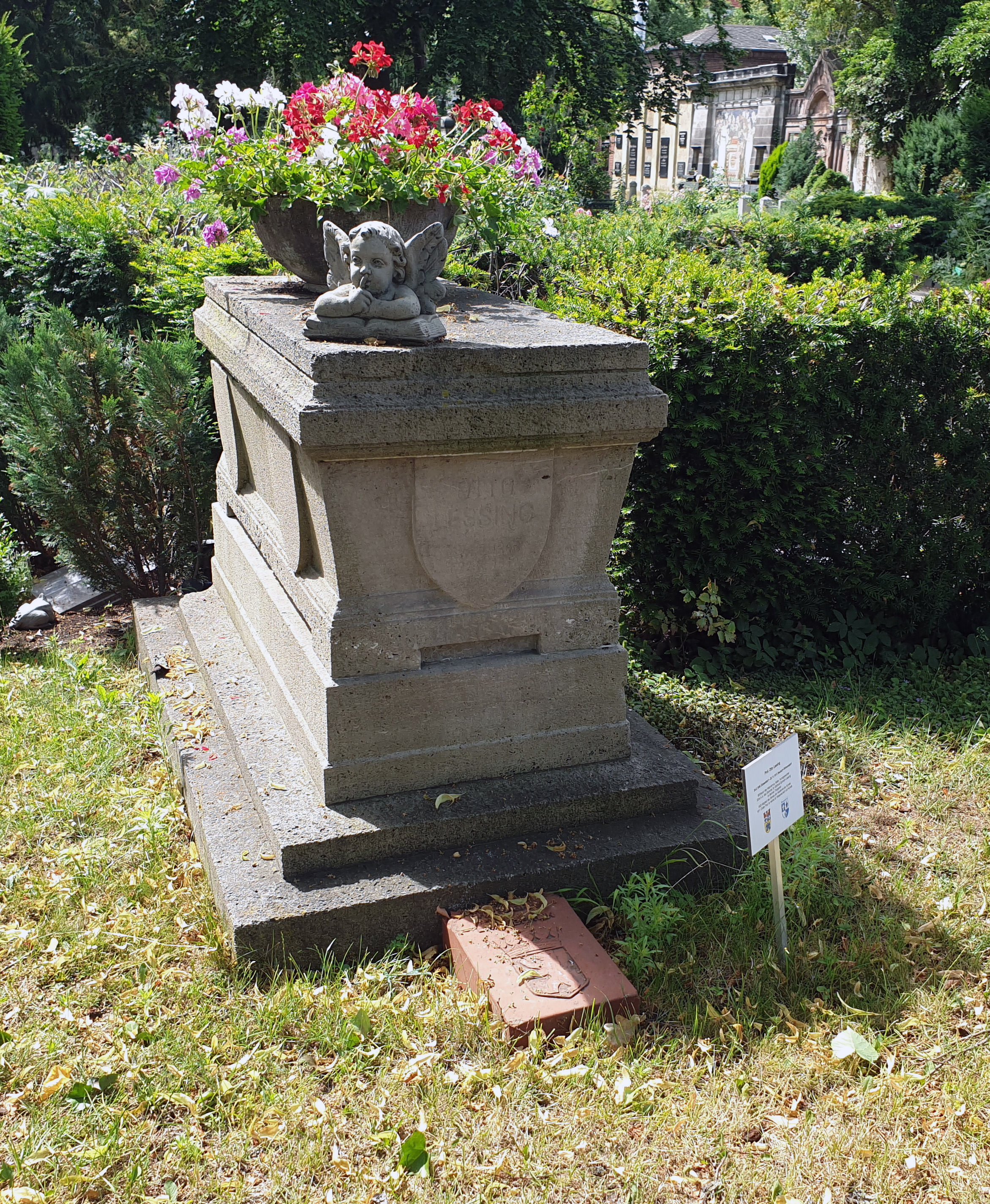 Grave of honor, Otto Lessing, Bornstedter Straße 11, Berlin-Halensee, Germany